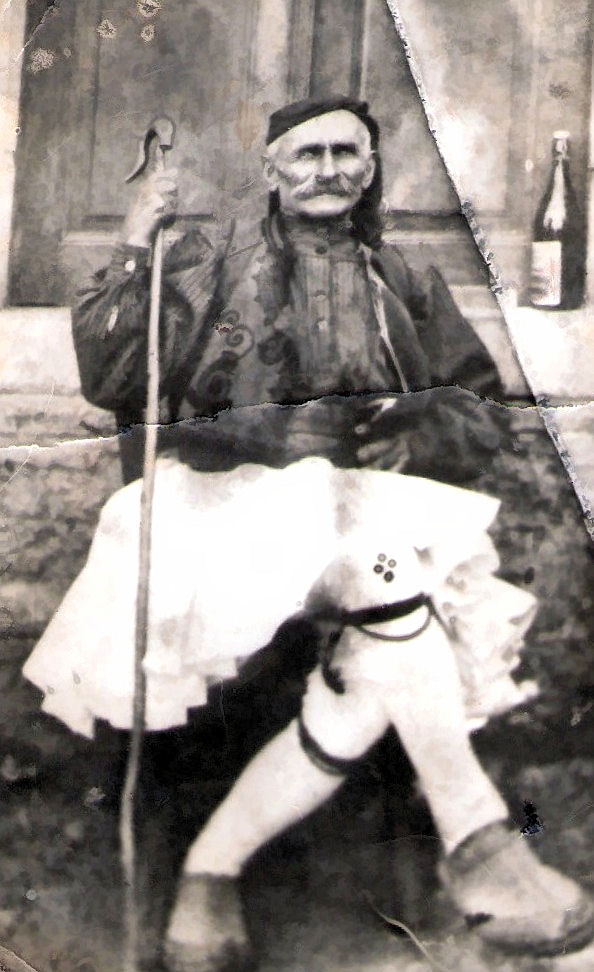 Georgios Tsioulos (ca.1850s - 1937/38). Born in Vervena, North Kynouria, Arcadia, Greece.